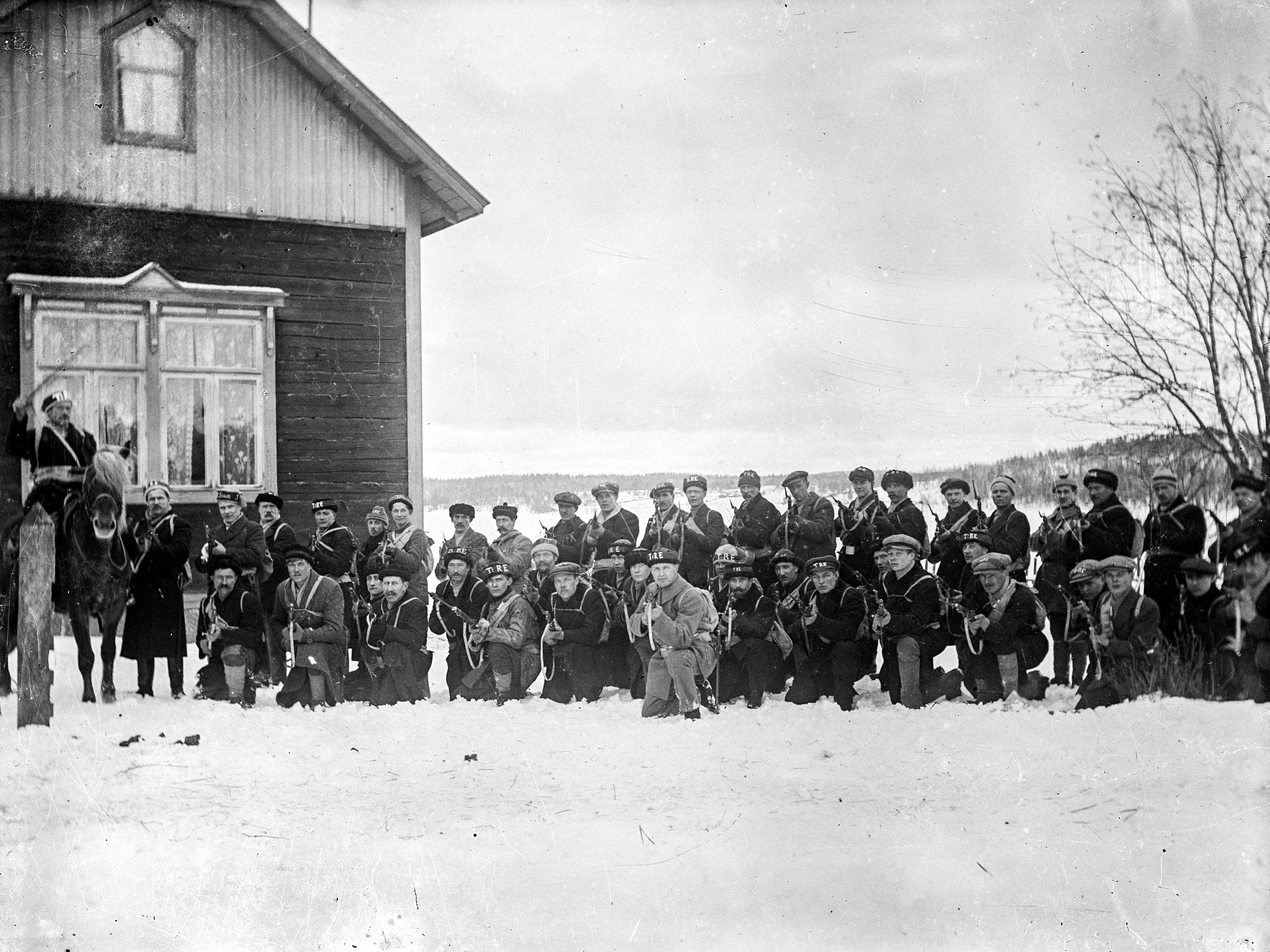 A company of the Tampere Red Guard at the front